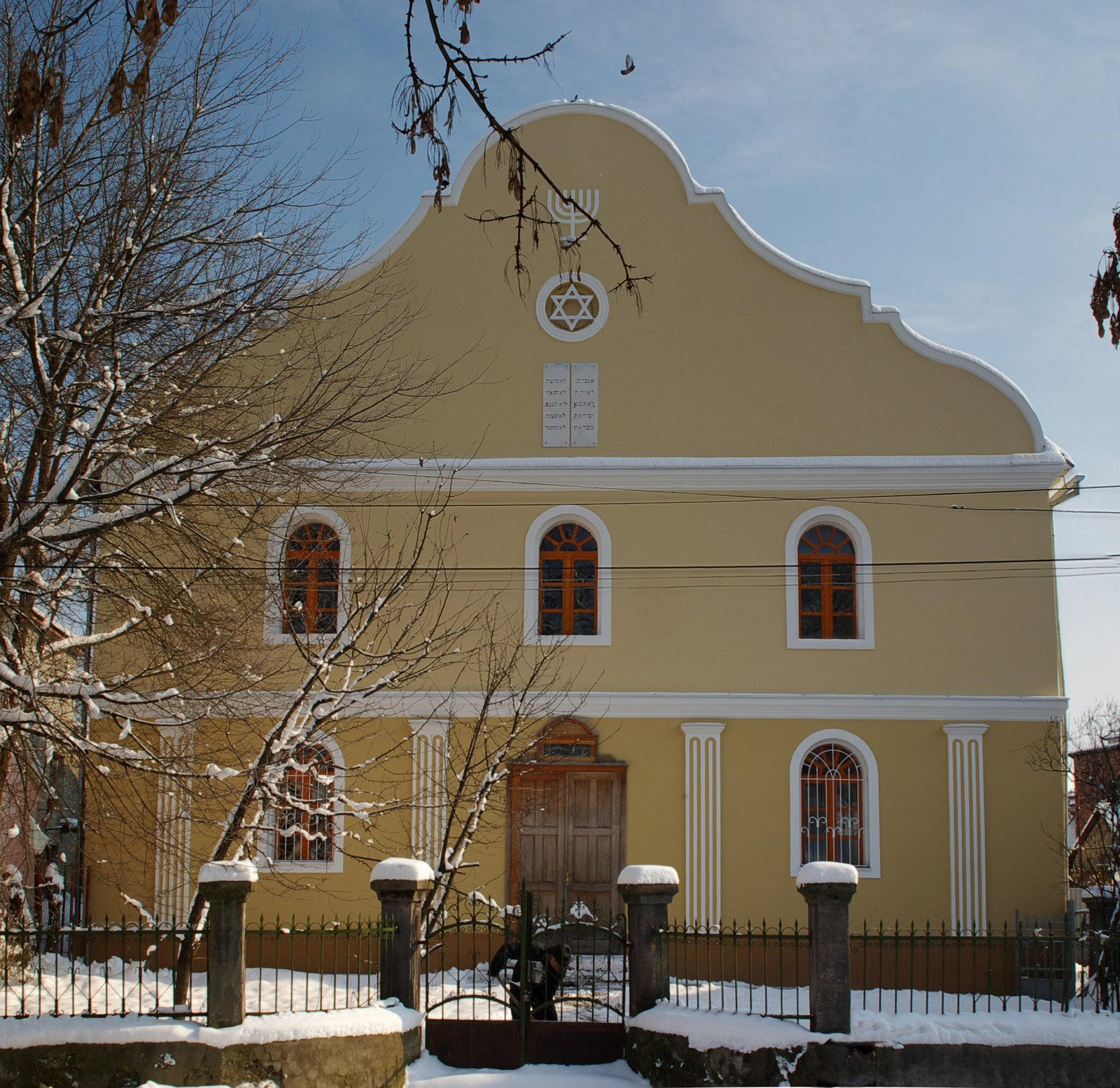 Sinagoga in Khust town, Zakarpattya